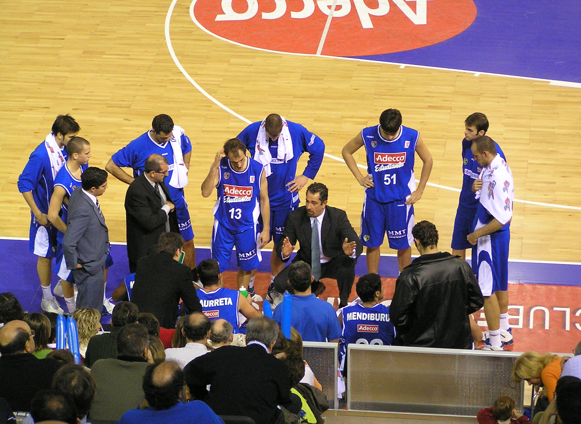 Time out in the middle of a match (Estudiantes-Pamesa, at the Madrid Arena) Author: Mr. Tickle Date: 19th November, 2005